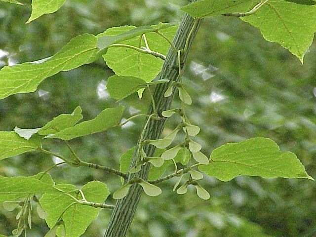 Species: Acer pensylvanicum Acer grosseri or Acer davidii subsp. grosseri Family: Sapindaceae Image No. 2